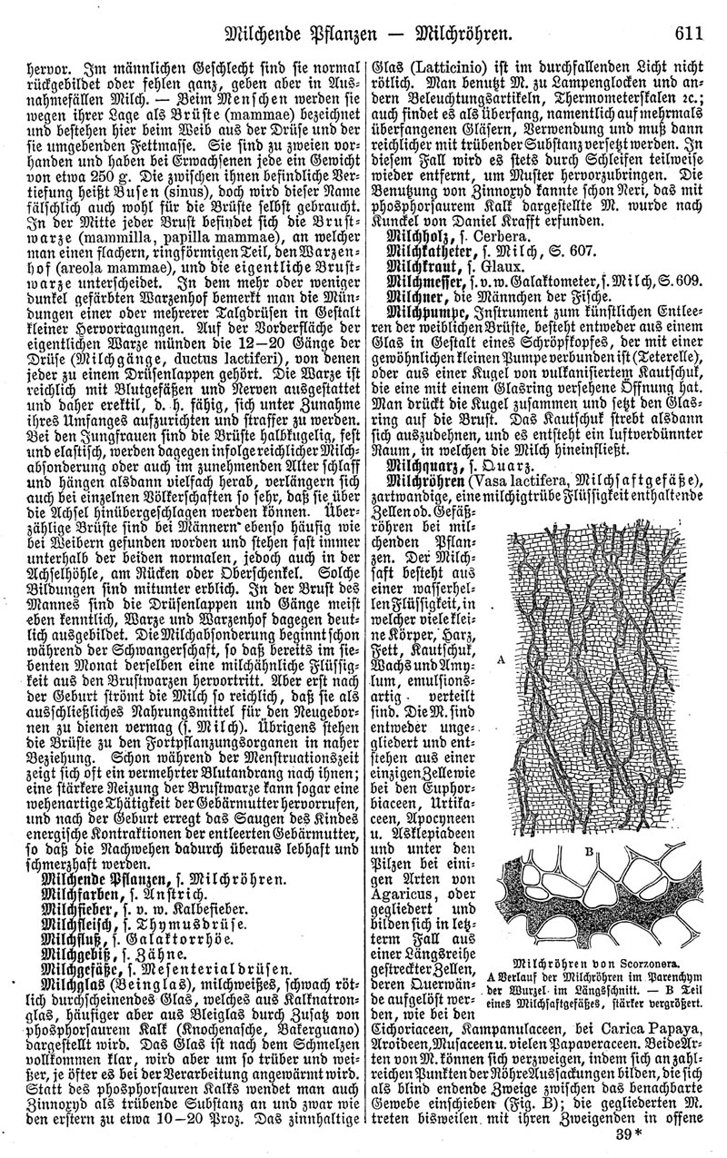 This is page 611 of 1028, in Volume 11 of the German illustrated encyclopedia Meyers Konversationslexikon, 4th edition (1885-1890), fraktur font.